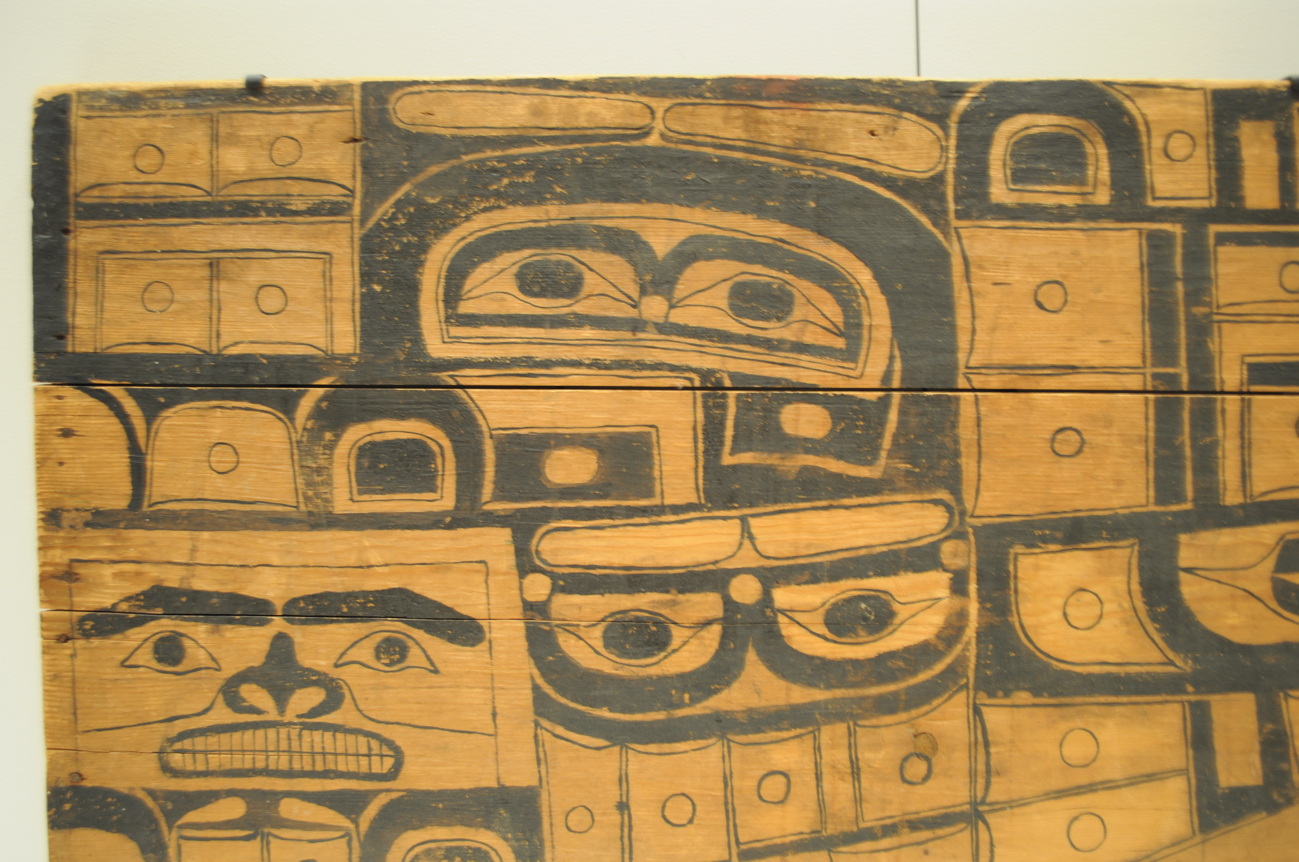 Pattern board for Tlingit weaving